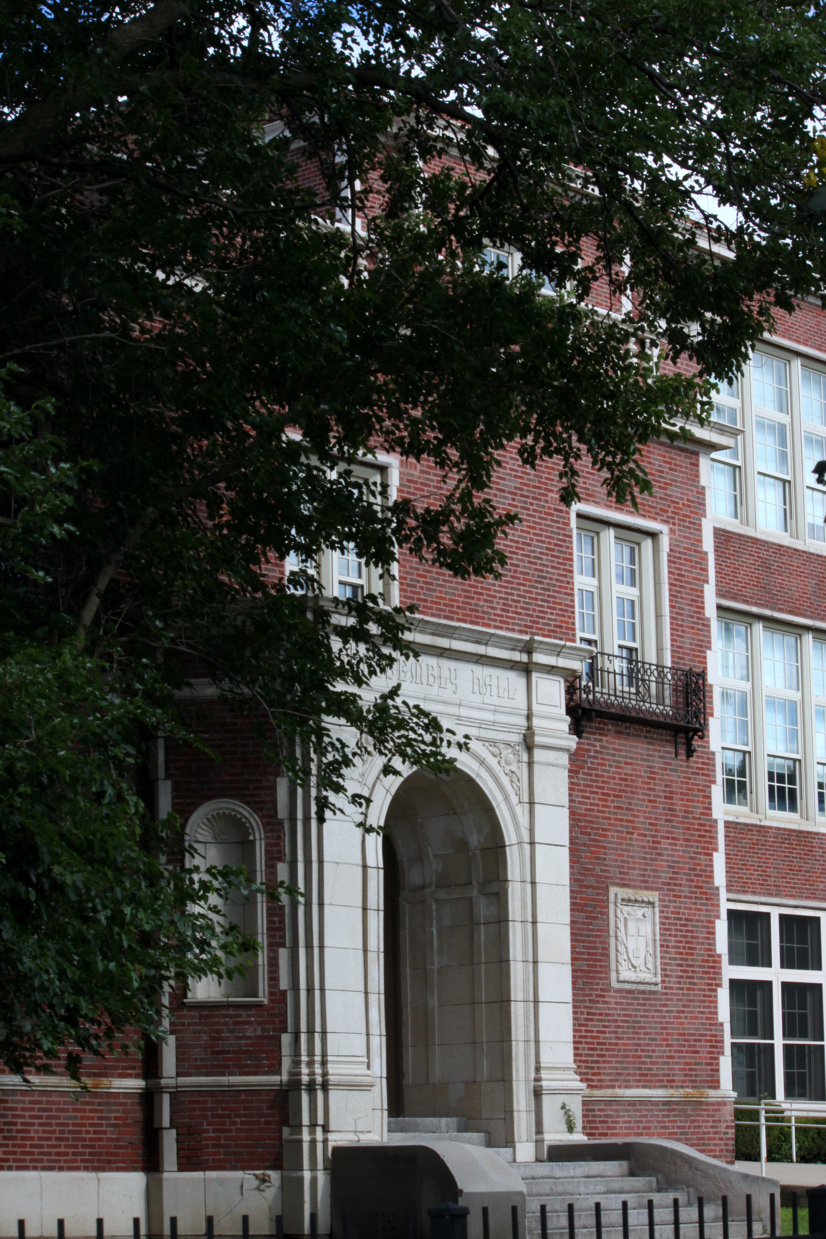 Lenart Regional Gifted Center: One of the school's entrances, located on the northwestern end, on LaSalle Street. The building's red brick and stucco façade is an example of Gothic Revival architecture, with Italianate ornamentation. Built in 1928.